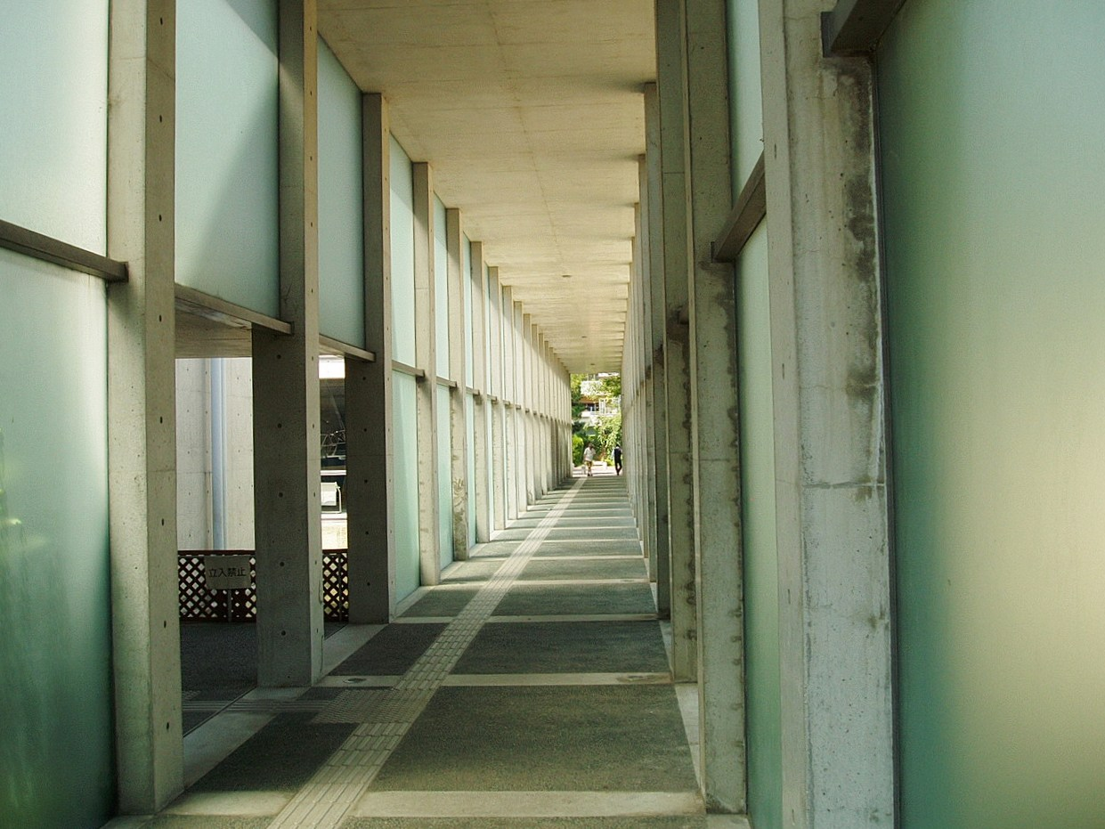 Corridor at Nishinomiya Shell Museum, located in Nishinomiya, Hyogo, Japan.